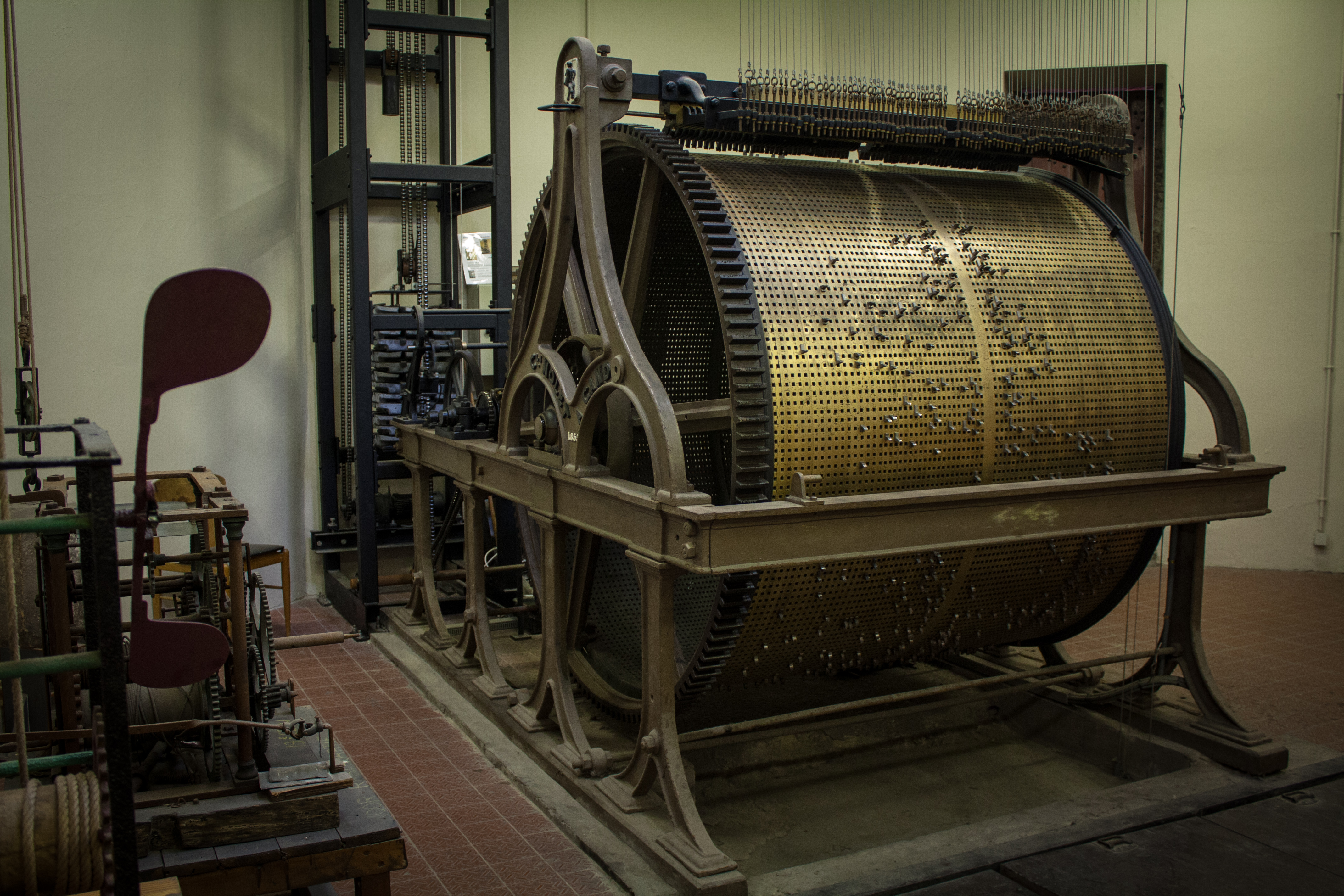 Carillon machinery for playing automated music on bells in a belltower. The machinery functions similarly to the machinery of a much smaller music box. The Belfry, Ghent, Belgium.